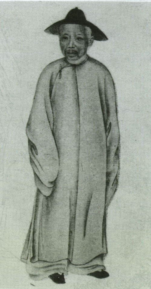 Yan Zongyi, poet of the Qing Dynasty.